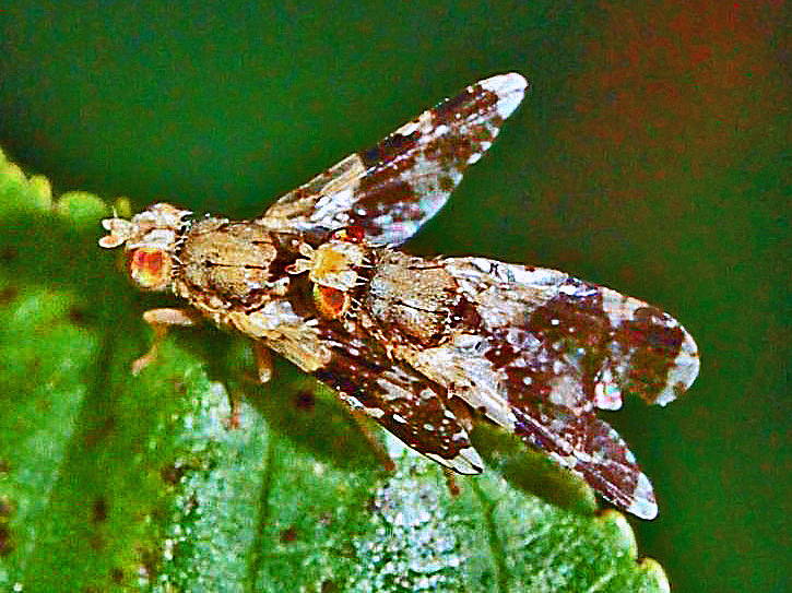 Tephritis formosa, mating pair. Piani di Praglia, Genova, Italy